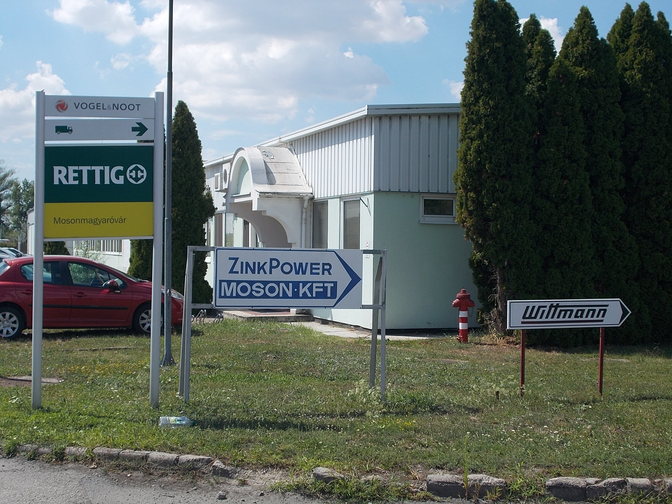 Rettig ICC ZinkPower Kopf Group and Wittmann. - Eke Street and Kenyérgyári Street, Mosonmagyaróvár, Győr-Moson-Sopron County, Hungary.